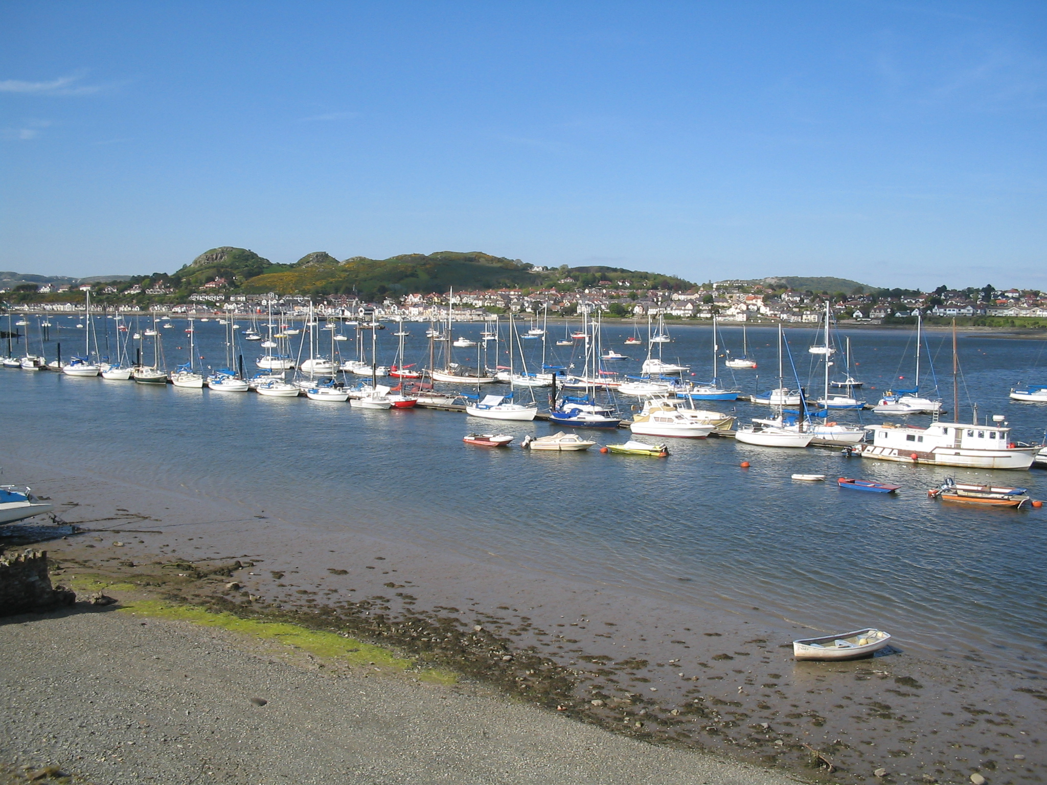 Boats in the River Conwy. The view is from Conwy, on the west side of the river. Upstream is to the right. David Benbennick took this photo on May 13, 2005 at 4:23 PM (15:23 UTC).